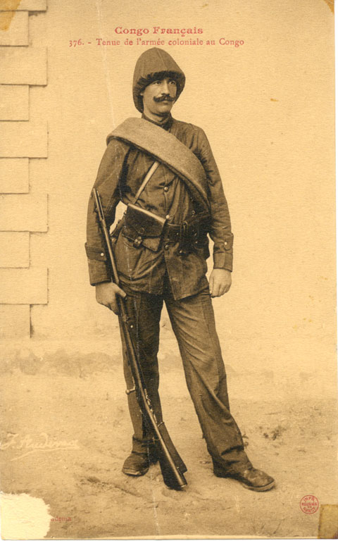 Congo Français [postcard] : Congo Français - Tenue de l'armée coloniale au Congo Contained in: Postcard Collection, 1898-[ongoing] Phy. Description: postcard : b&w ; 9 x 14 cm. Produced: [ca. 1905] Summary: Translated caption reads: French Congo. Colonial army uniform in Congo. Congo Français. Photograph by J. Audema General Note: Title source: Postcard caption. Image indexed by negative number. Subject-Topical: Leaders Subject - Geographical: Congo (Brazzaville) Form / Genre: Postcards Repository Loc: Smithsonian Institution, National Museum of African Art, Eliot Elisofon Photographic Archives, 950 Independence Avenue, S.W., Washington, DC 20560-0708 Local Number: EEPA 1985-140076